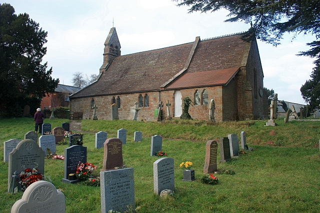 The Church of St. John the Baptist, Preston Located behind Preston Court. It was built in 1275 on the site of a probable Saxon church. It was "restored" in 1859 when a small new aisle was added. The vestry was built in 1896.